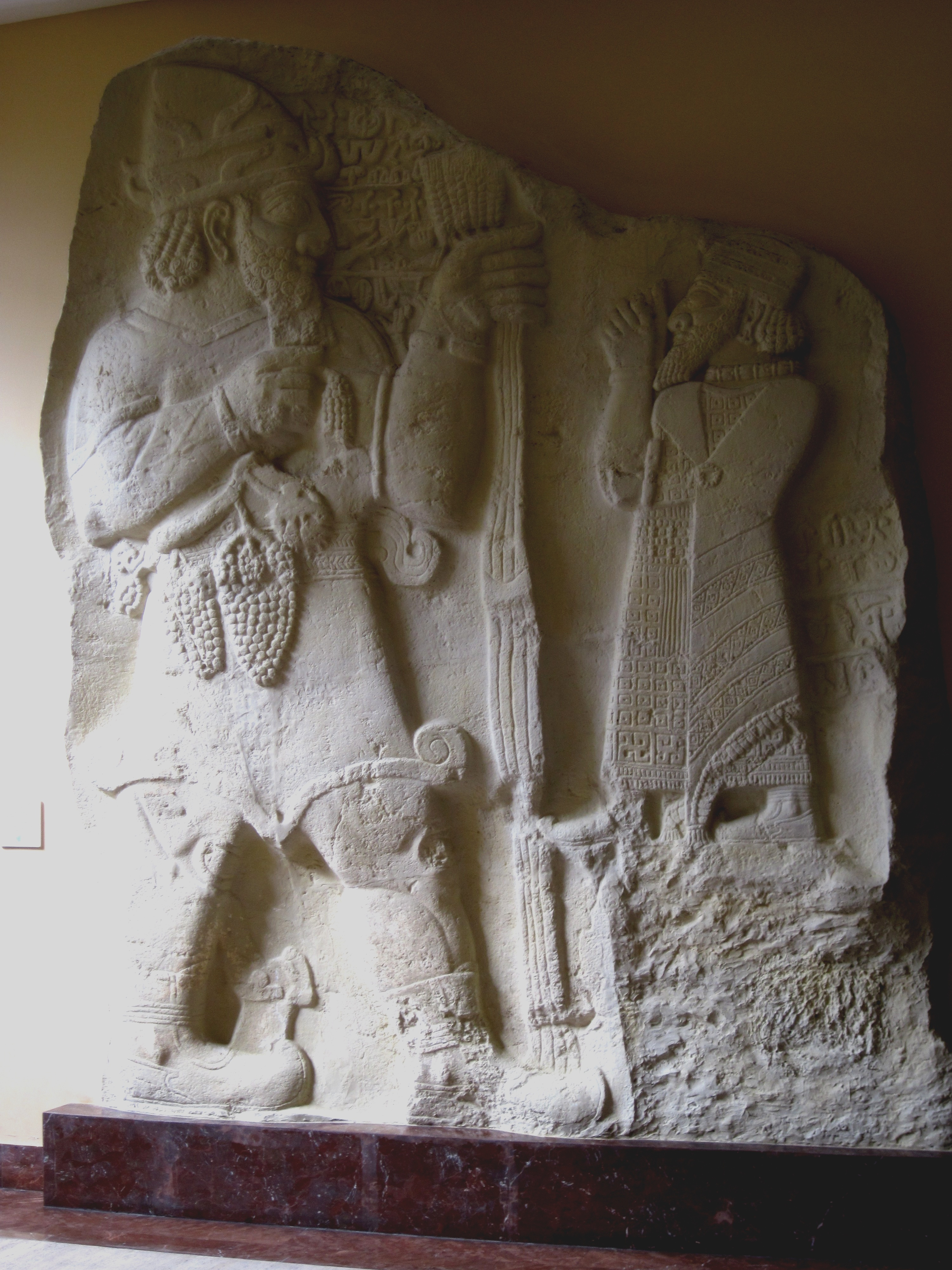 Monumental bas-relief of Warpalawas, king of Tyana (R), praying to the storm god Tarhunta (L). Interlingua: Basse-relievo monumental de Varpalavas, rege de Tyana (D), adorante Tarhunta, deo de tempestas (S).